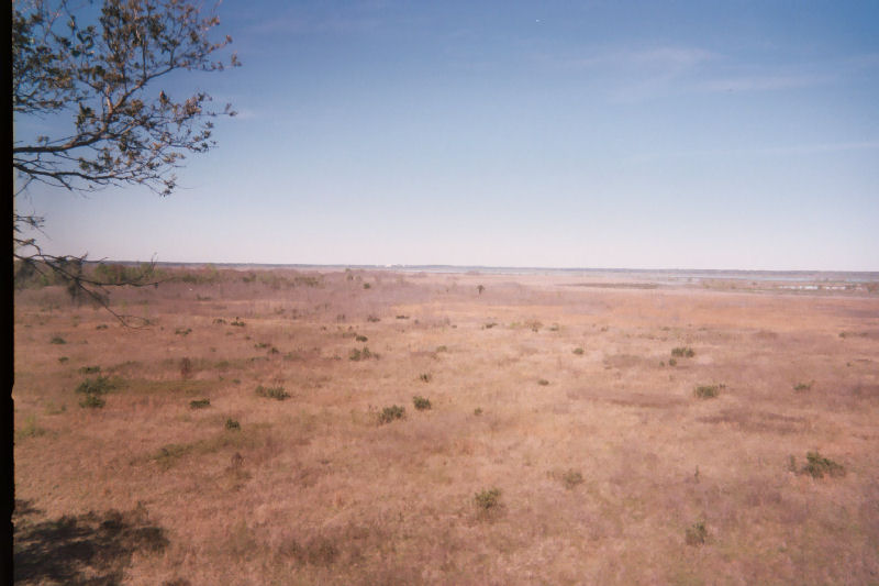 Payne's Prairie, south of Gainesville, Florida